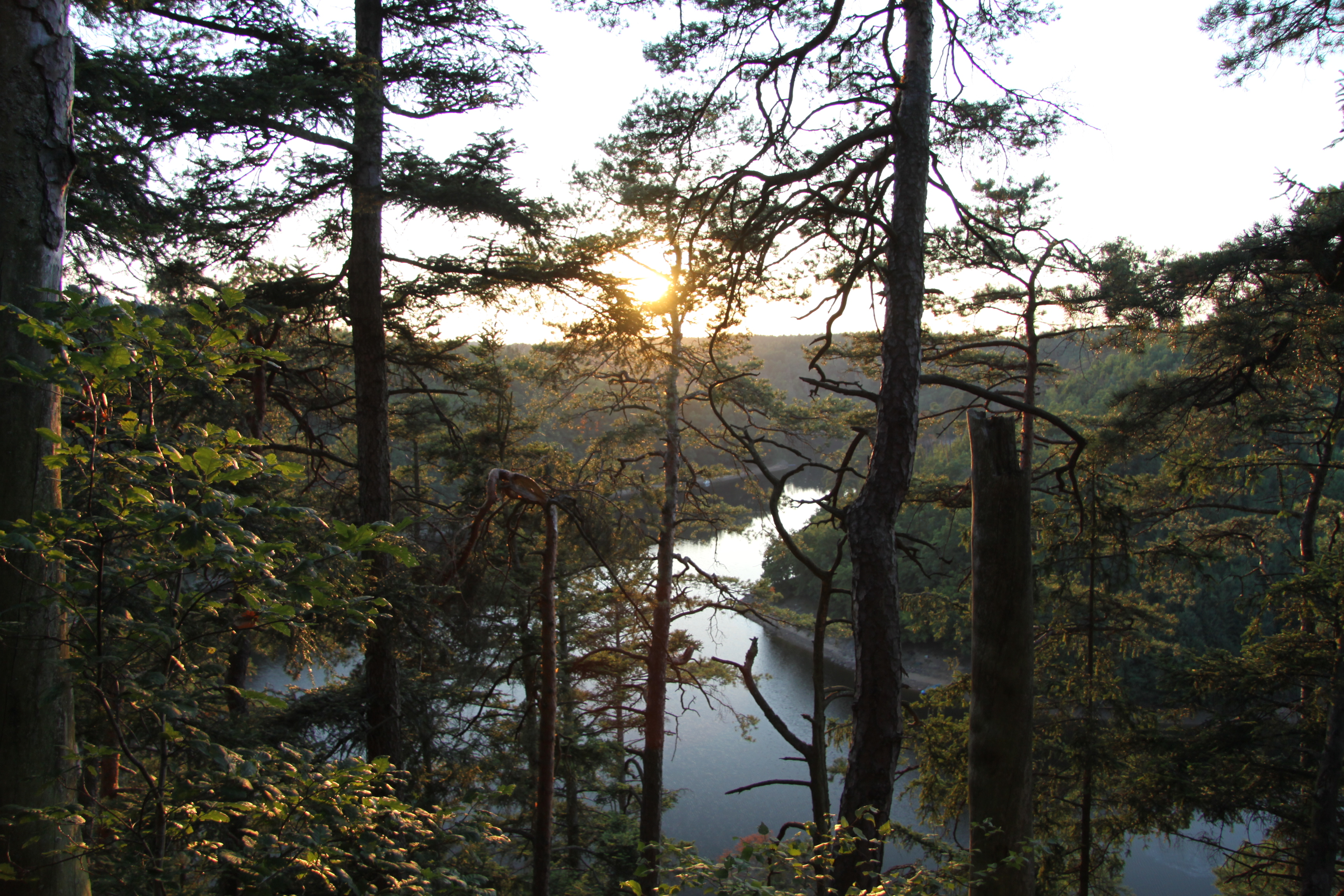 Natural reservation called "Krkavčina" near Oslov village on the bank of Otava River, Písek District, Czech republic. - Google Maps - Google Earth